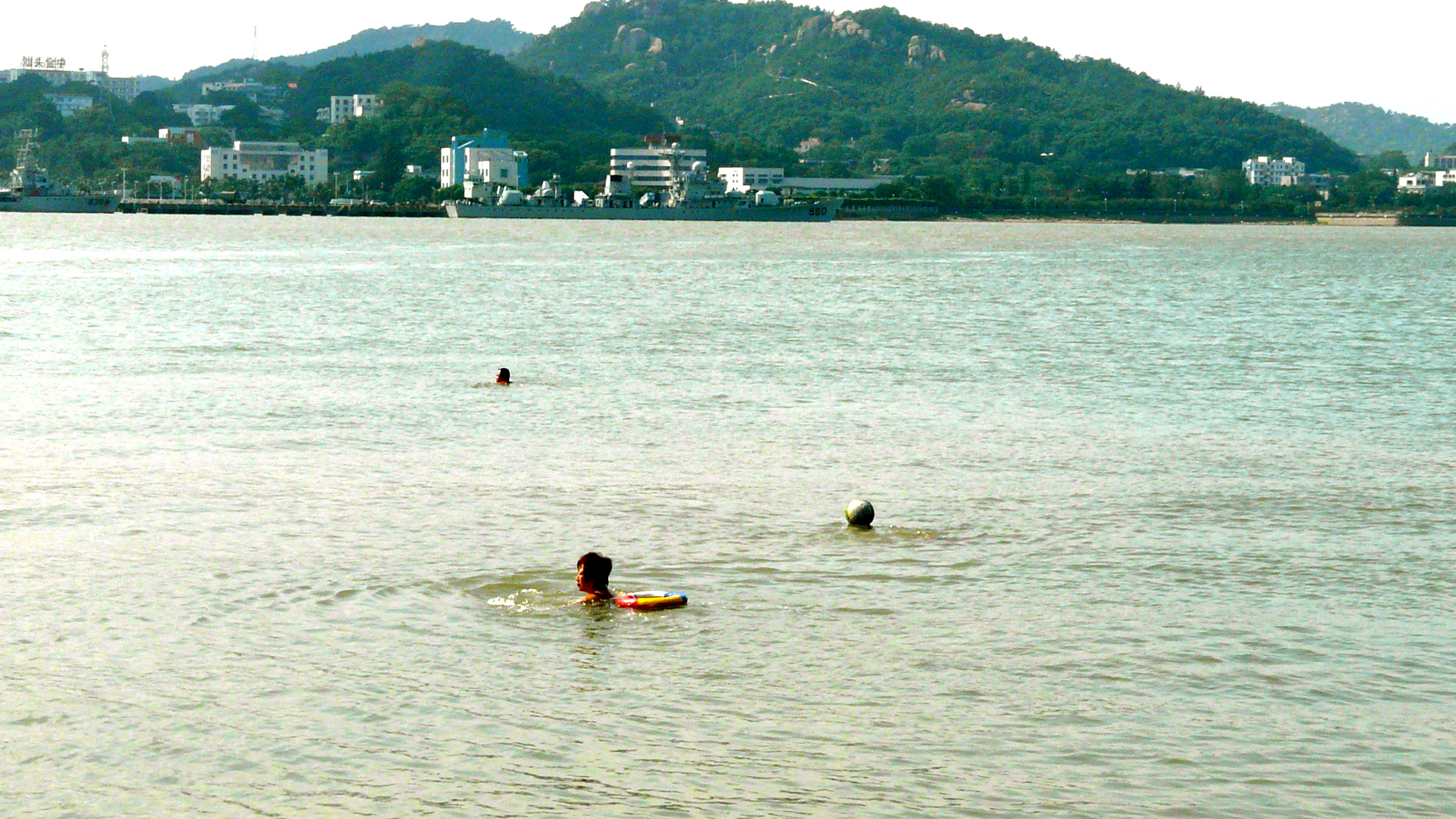 Teochews swimming in Shantou / Swatow Harbour in Shantou Prefecture, Guangdong Province